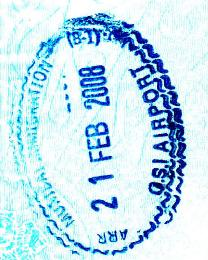 This is an Entry stamp from my own passport.